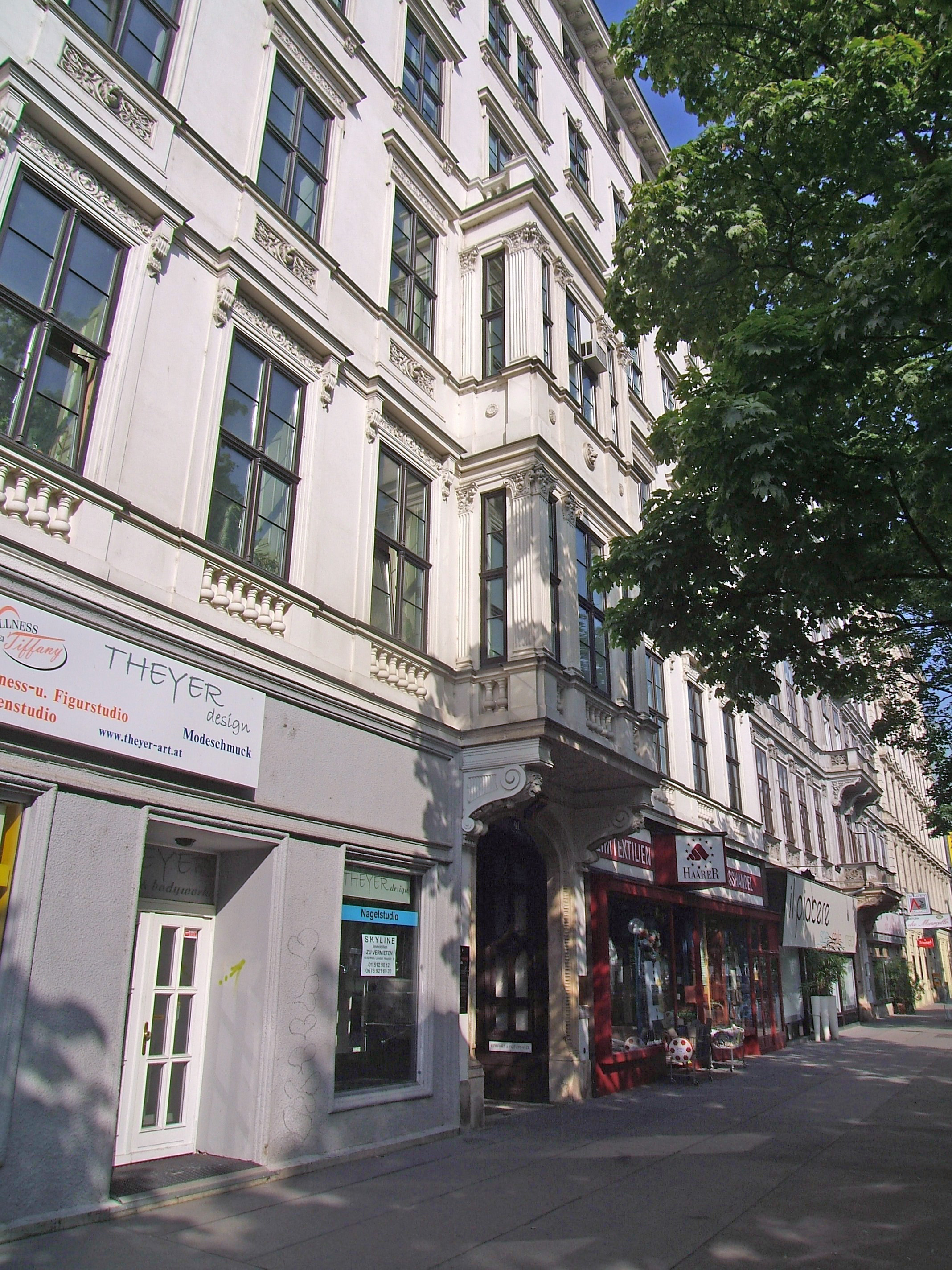 Palais Fellner in Vienna 1st district Franz-Josefs-Kai 41